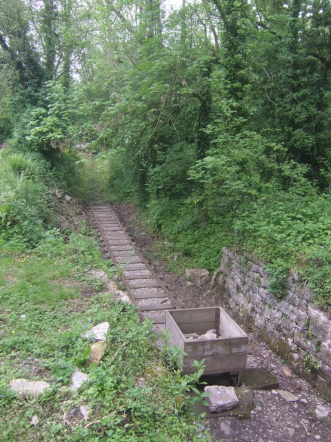 Reconstructed tramway The tramway was constructed in 1806 to transport limestone the 0.7 miles from Llanymynech Hill to a wharf on the Ellesmere Canal. With the extension of the canal to Montgomery and Newtown further tramways and wharves were constructed. In 1840-41 some 56,500 tons of limestone were transported on the Montgomery Canal. There were 92 separate kilns operating along its 26 mile length preparing lime for spreading on the fields: many of these are still evident. Ref